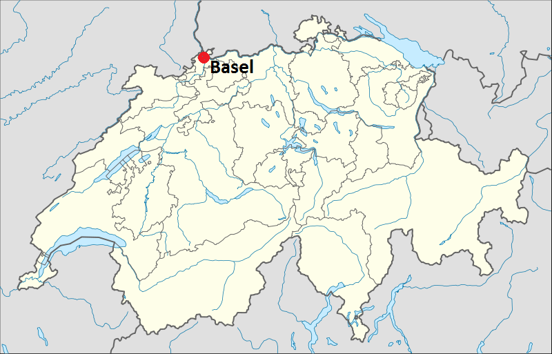 Location of Basel in Switzerland